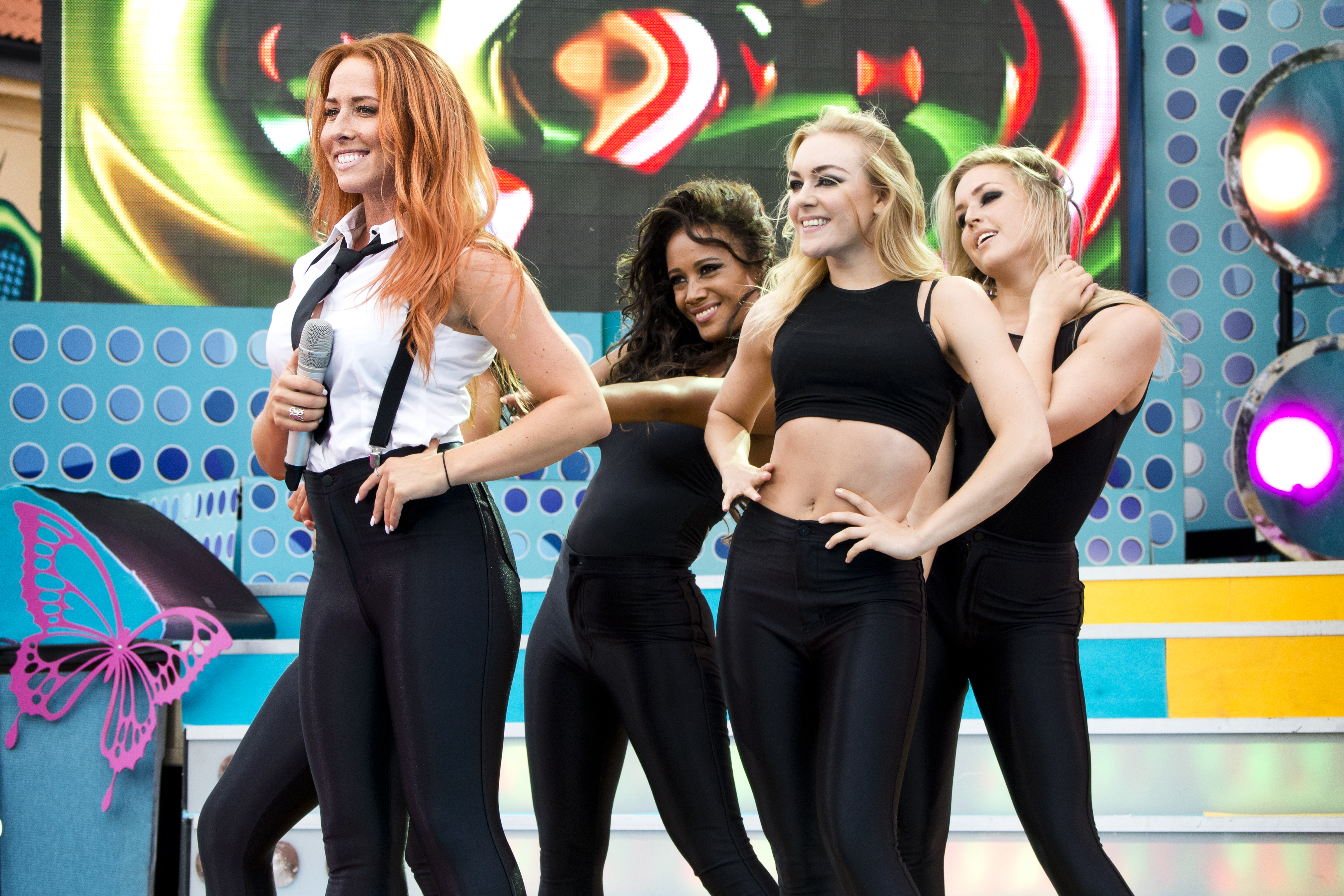 Linda Pritchard at sommarkrysset 2014